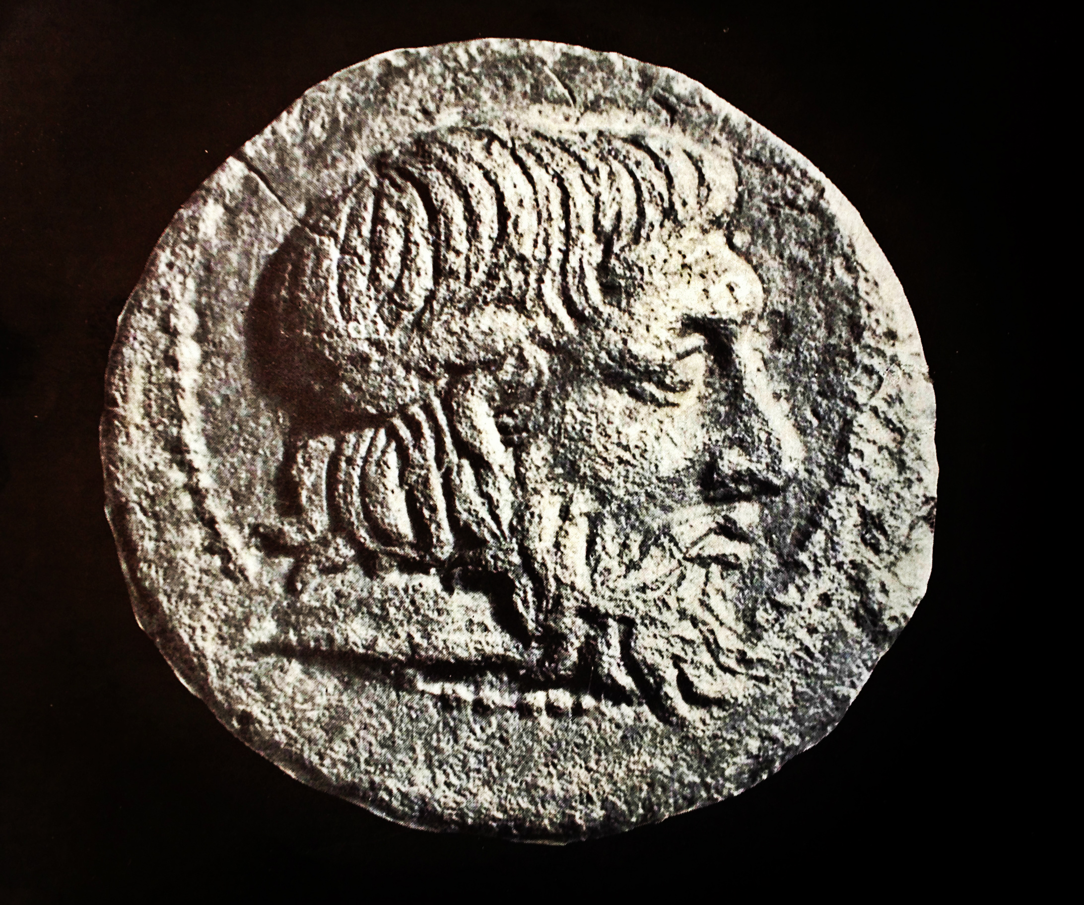 Seuthopolis Coins 1